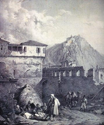 The Palamidi and part of Nafplion - Lithograph 1826